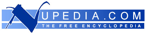 Nupedia logo